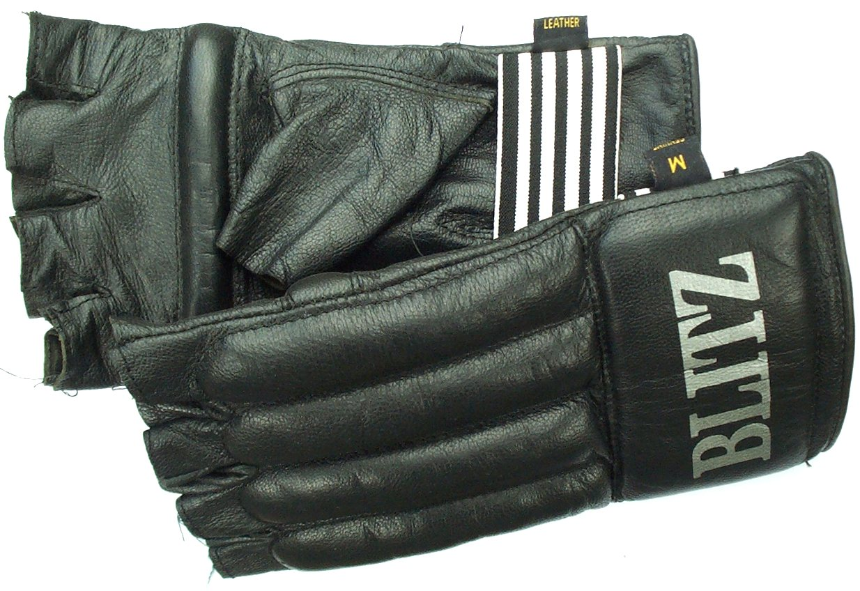 A pair of fingerless bag gloves for protecting the hands when punching a punch-bag.